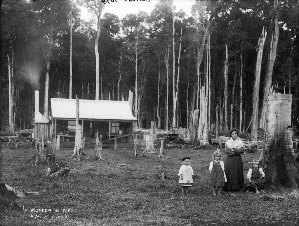 'Rural Life' Pictures from The Powerhouse Museum